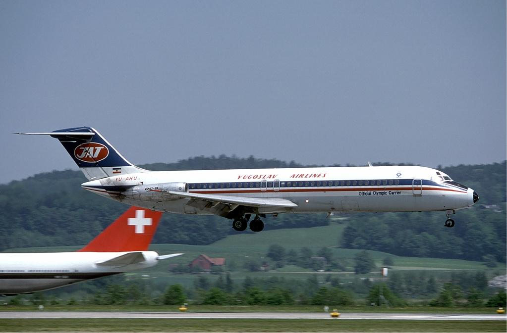 Douglas DC-9 of Yugoslav Airlines at Zurich Airport